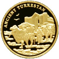 Coin of Kazakhstan